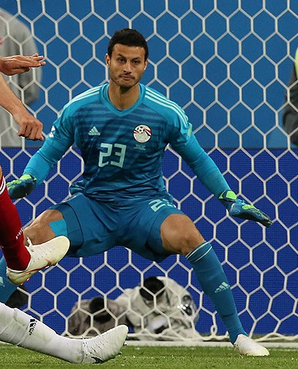 Mohamed El-Shenawy